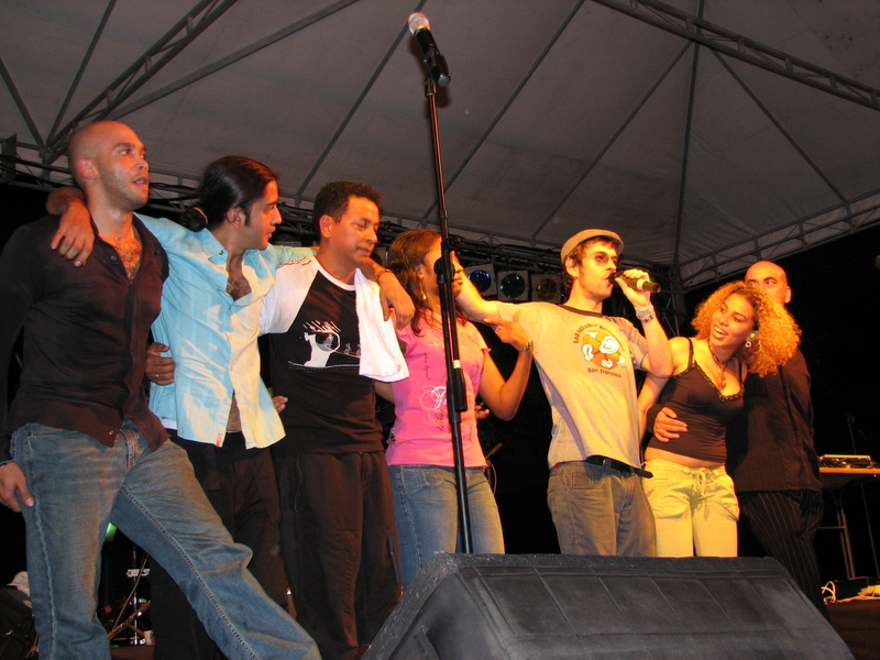 Sidestepper, Colombian muic group